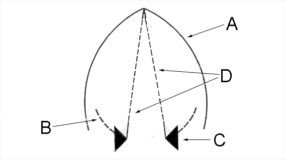 movement of the arytenoid cartilage components own drawing